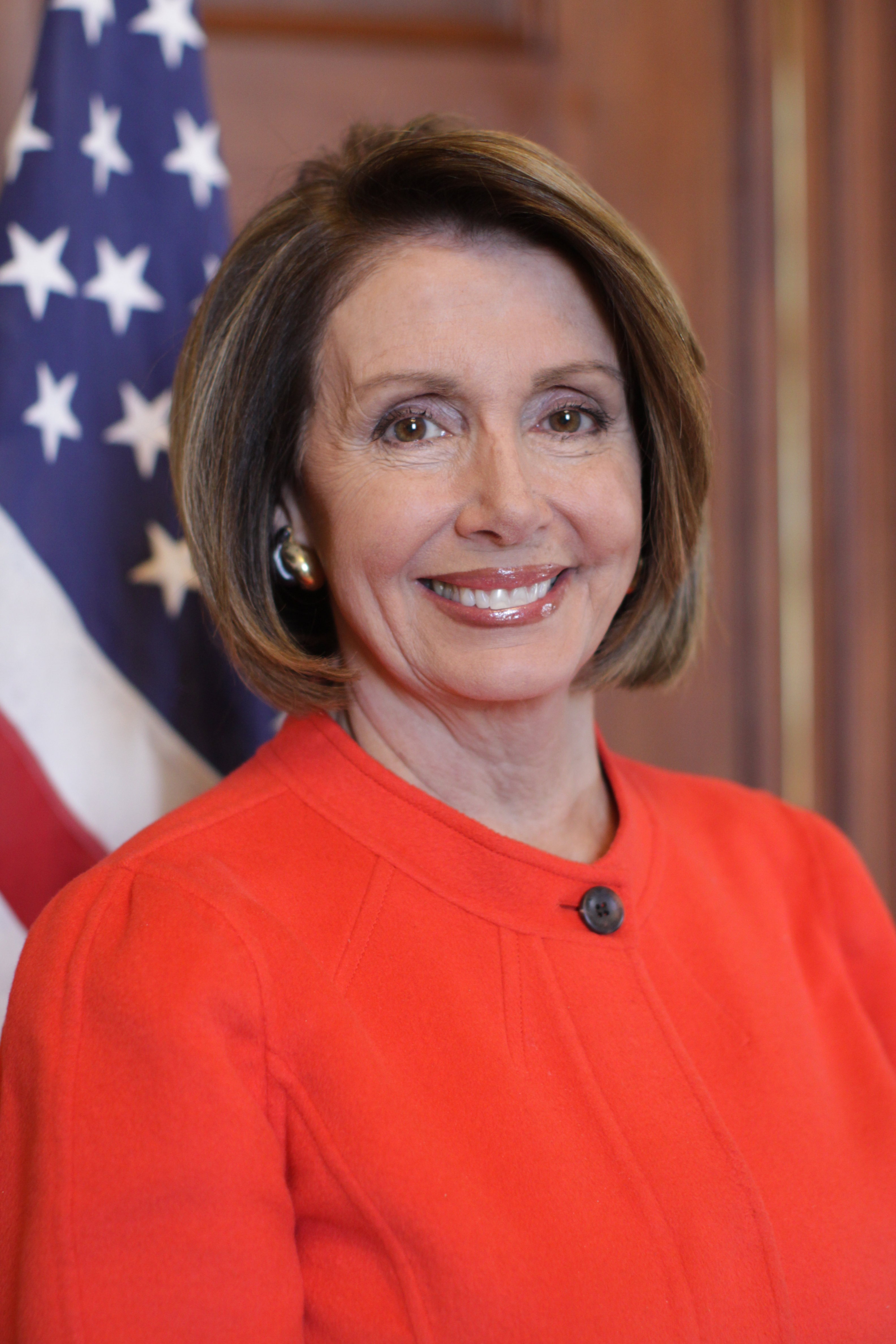 Nancy Pelosi photo portrait as Speaker of the United States House of Representatives